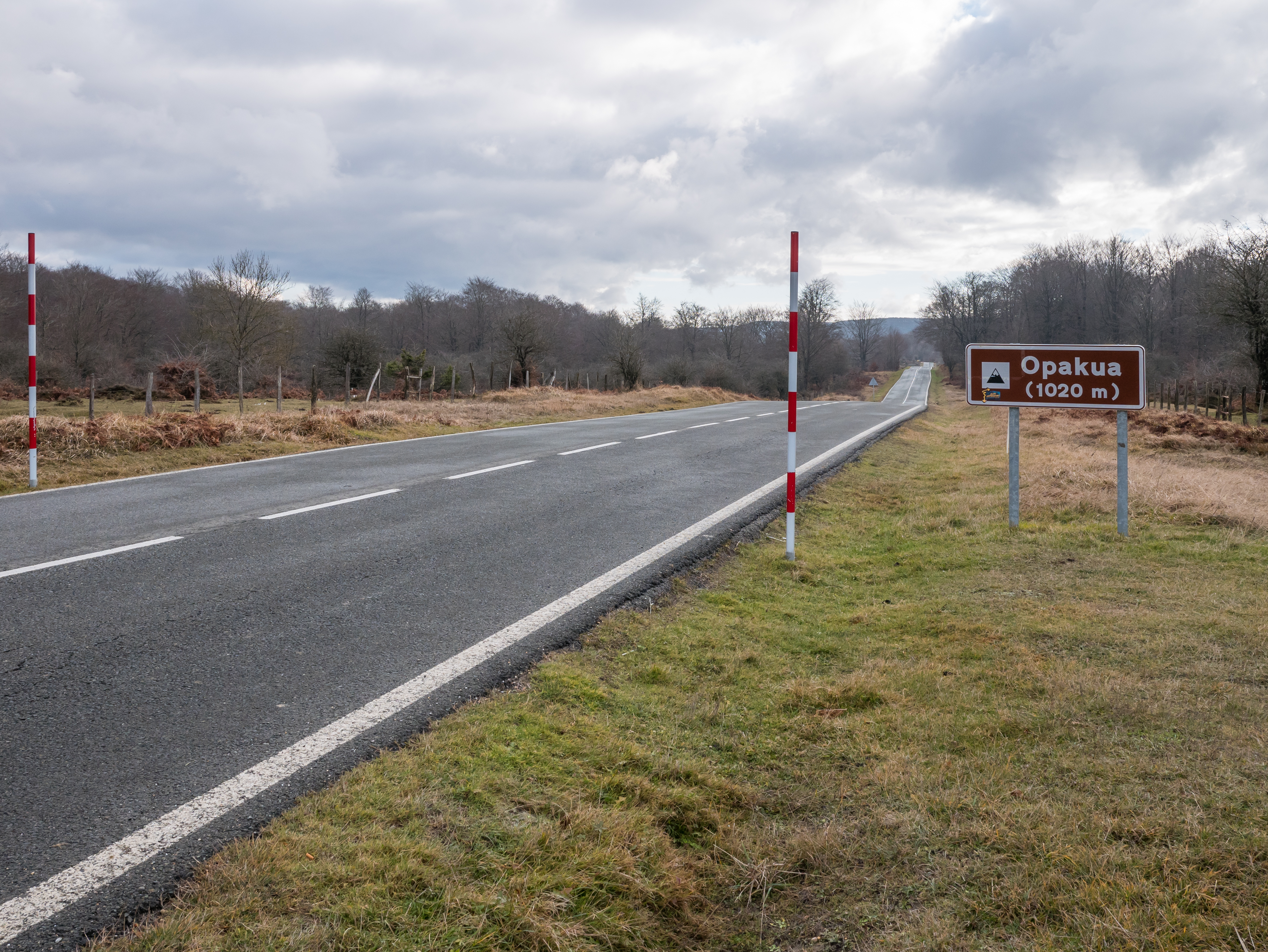 Summit of Opakua mountain pass. Álava, Basque Country, Spain